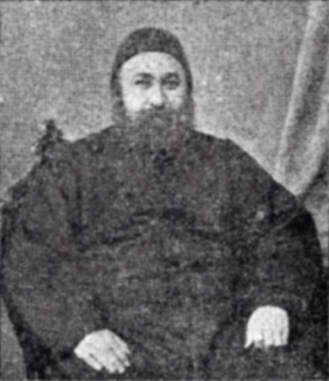 Shirvanizade Mehmed Rushdi Pasha, Grand Vizier of the Ottoman Empire